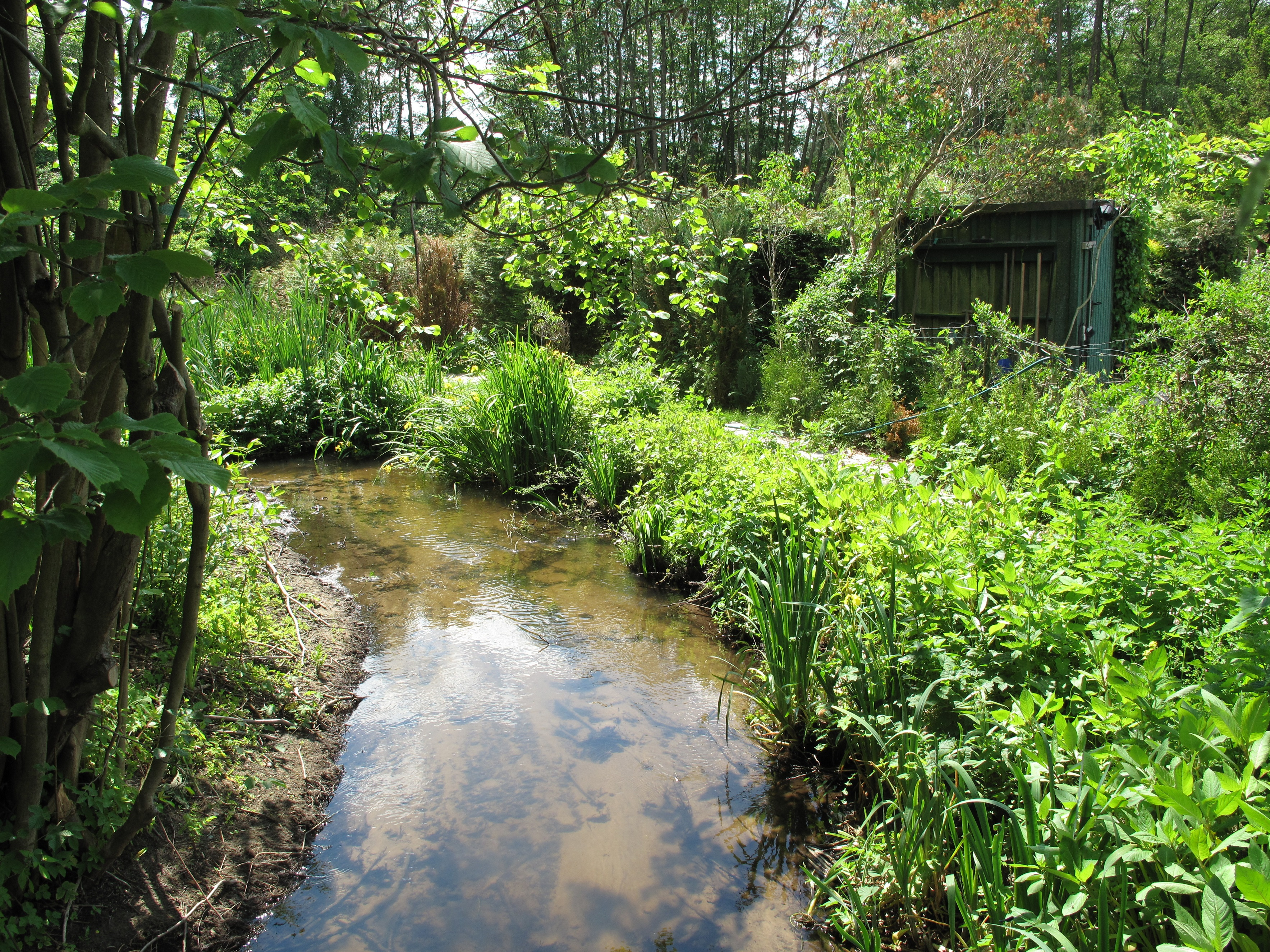 The Lichtenower Mühlenfließ is a 22,8 kilometers long stream in the districts Märkisch-Oderland and Oder-Spree, Brandenburg, Germany. It is named after the village Lichtenow, part of the municipality Rüdersdorf.